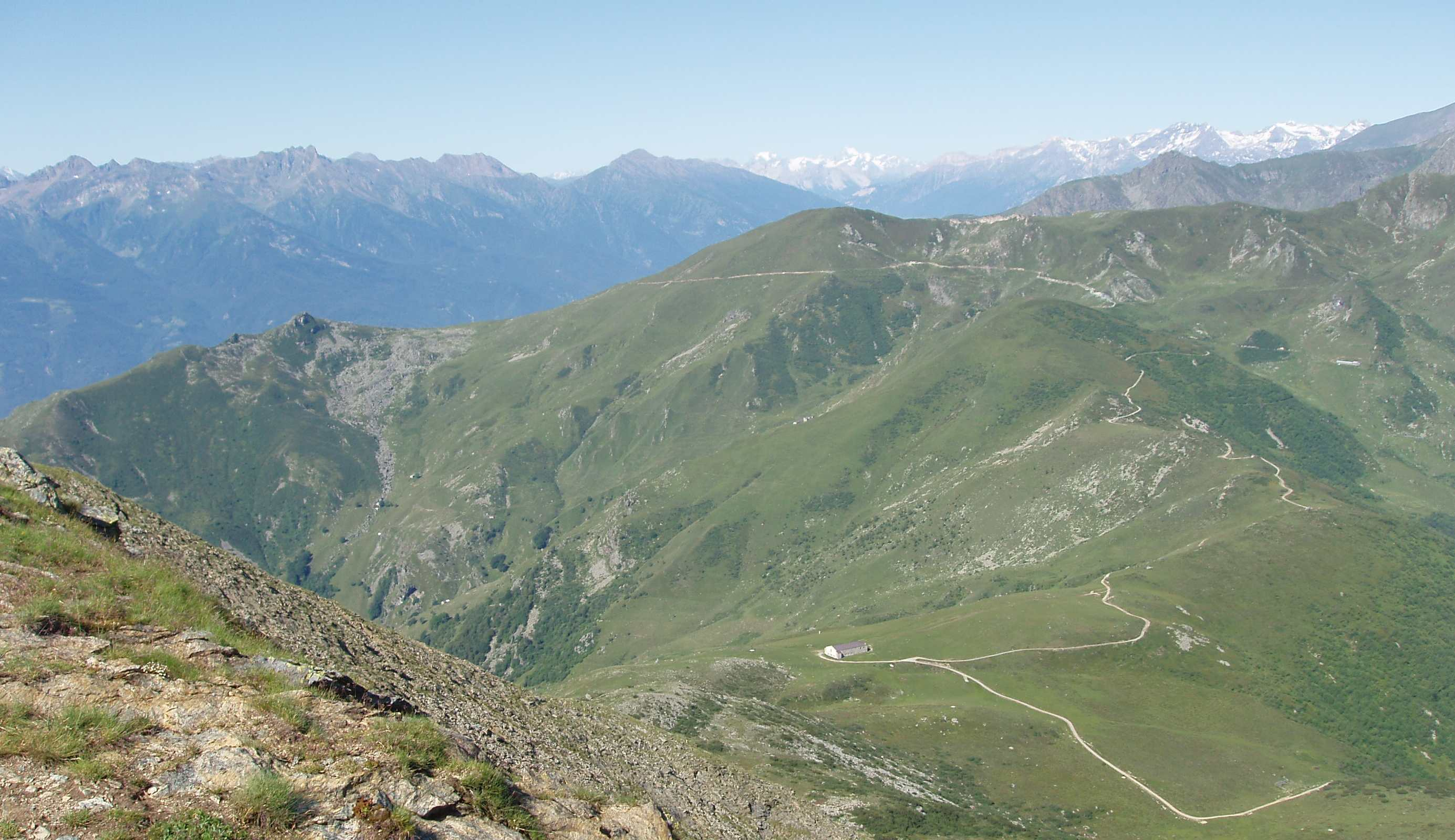 Colombardo Pass from Punta Imperatoria (Italy, Piedmont)